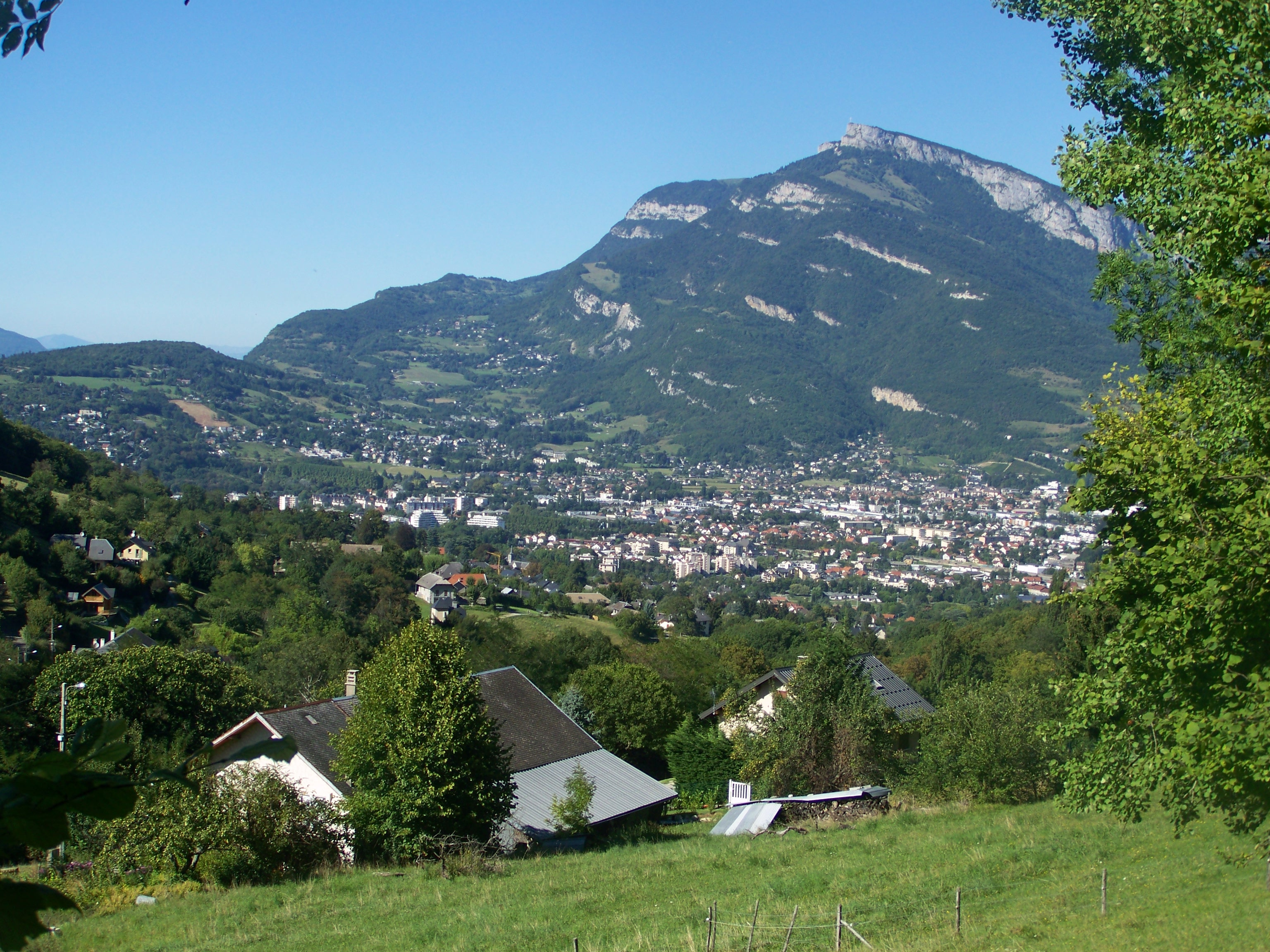 Landscape of Barberaz and Bassens seen from the highs of Barberaz (la Lésine) near Chambéry in Savoie, France.